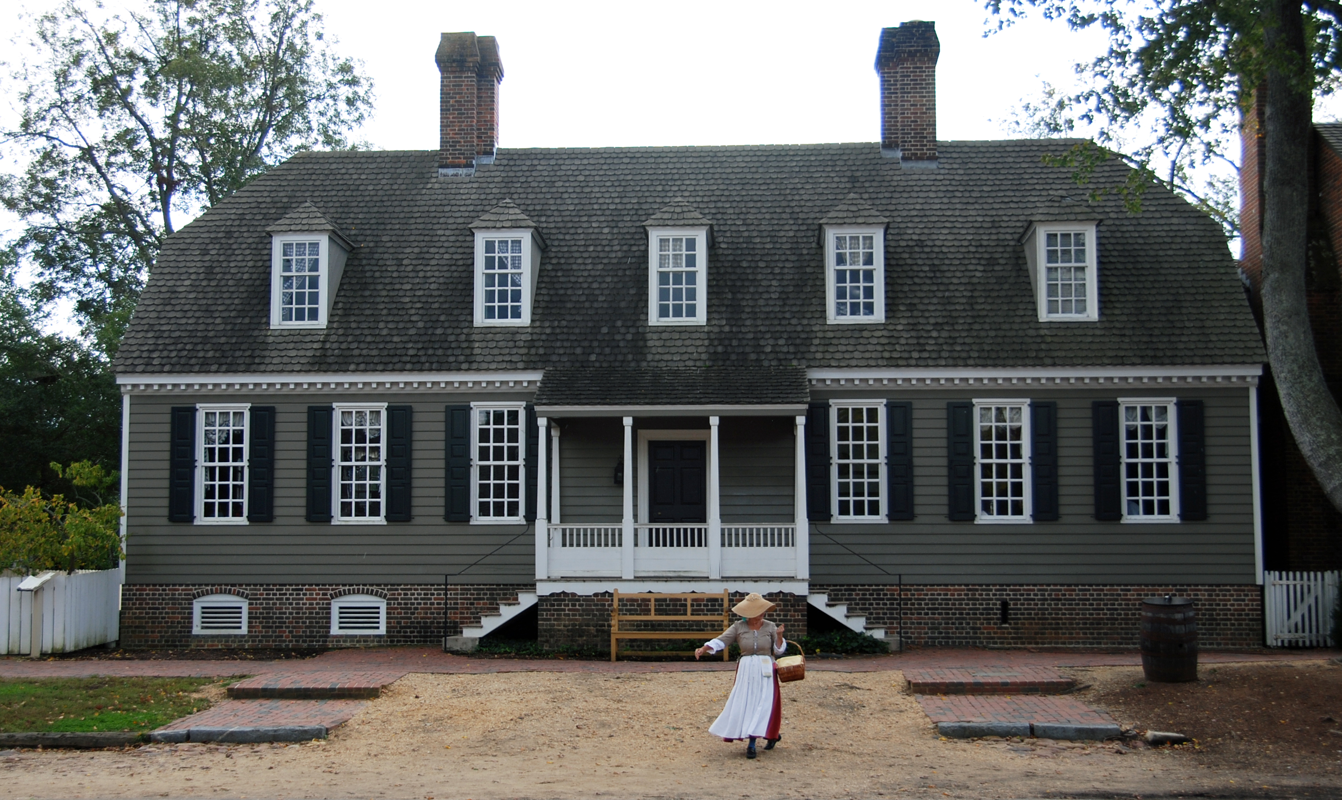 Alexander Purdie house at Colonial Williamsburg, VA. - next to Kings Tavern